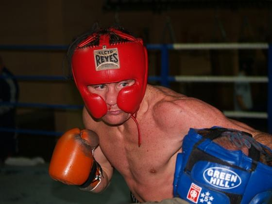 Allan Stevenson - Gomez